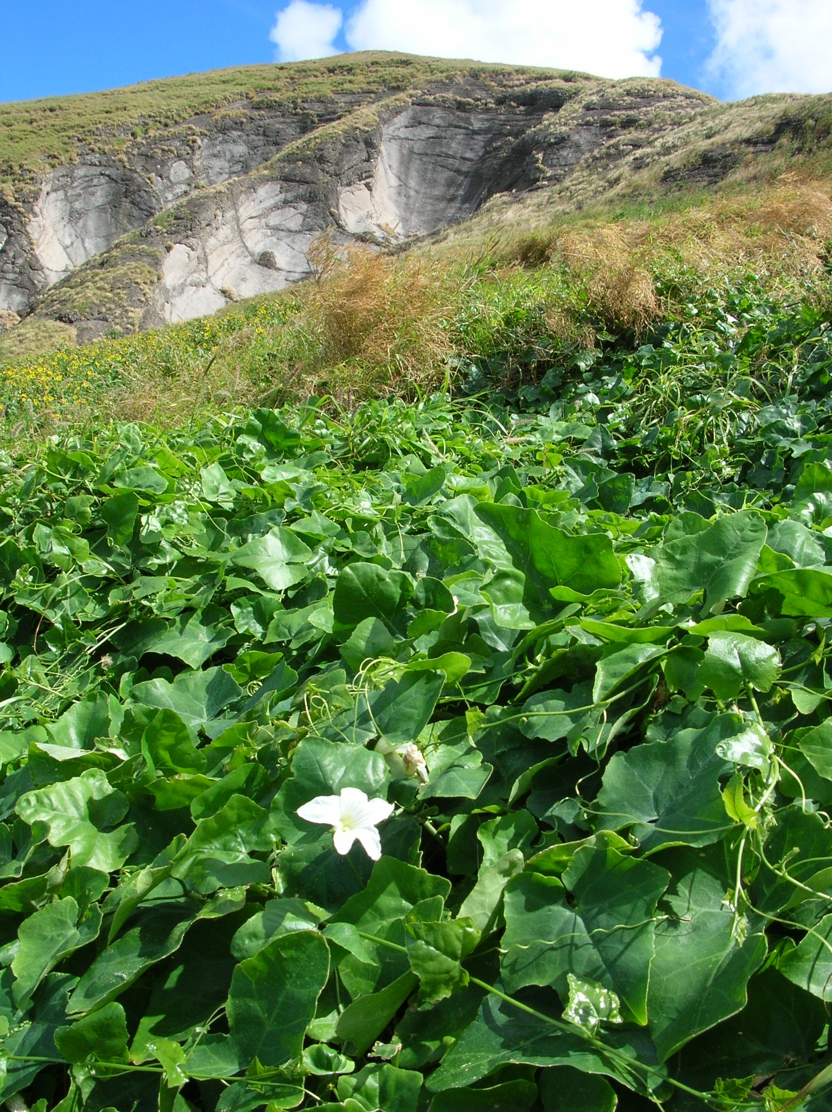 Coccinia grandis (habit). Location: Oahu, Manana